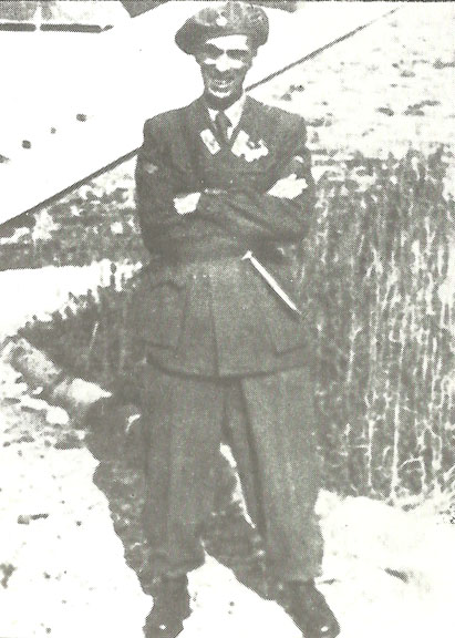 Colonel Pietro Tantillo, first commander of the 186th Regiment Folgore, and vice commander homonym Airborne Division, a few days before departure for El Alamein.